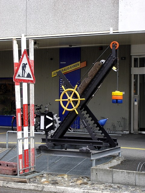 Interlaken